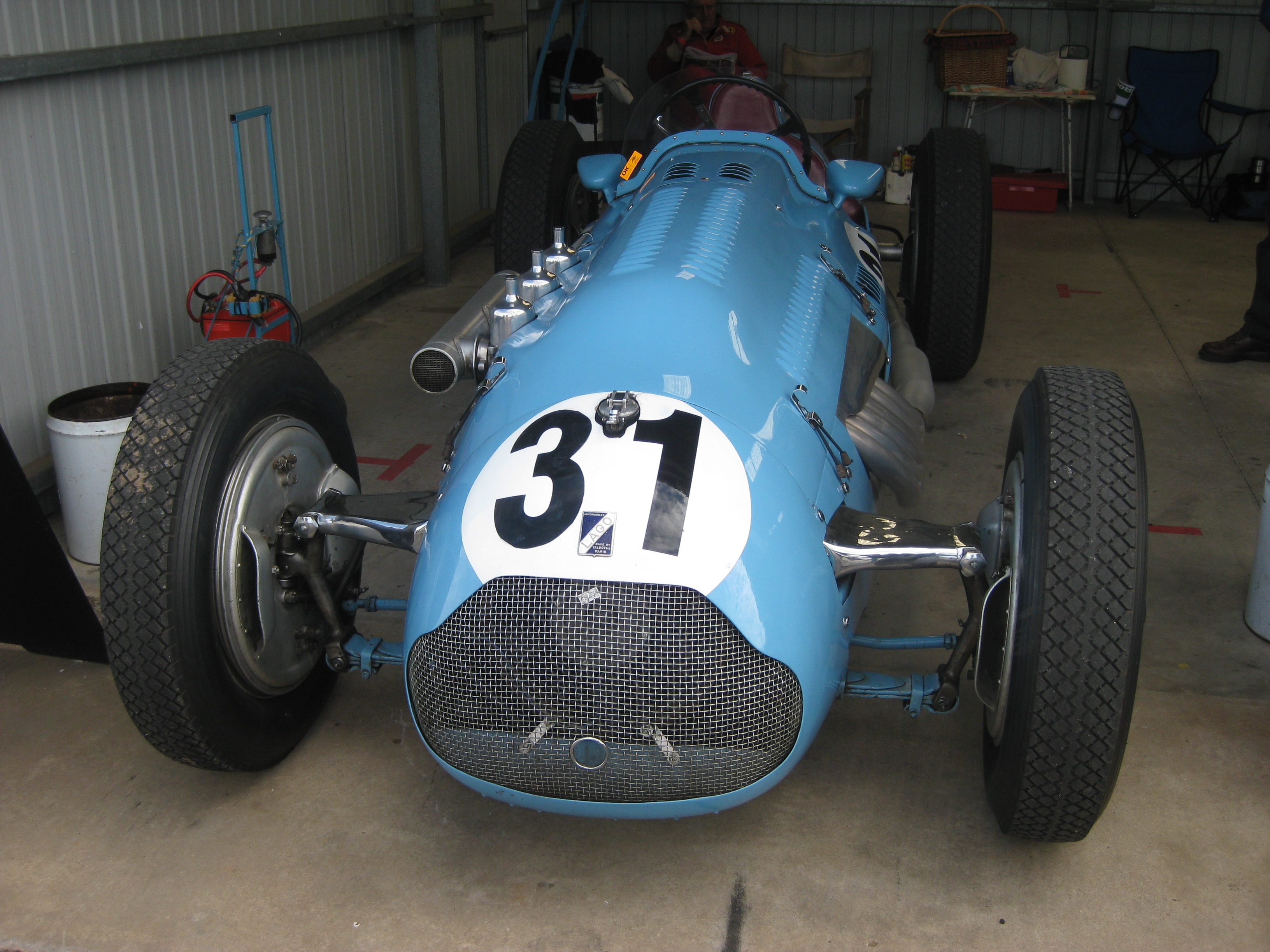 Talbot-Lago Type 26C, chassis number 11002, at Mallala Motor Sport Park on 3 April 2010